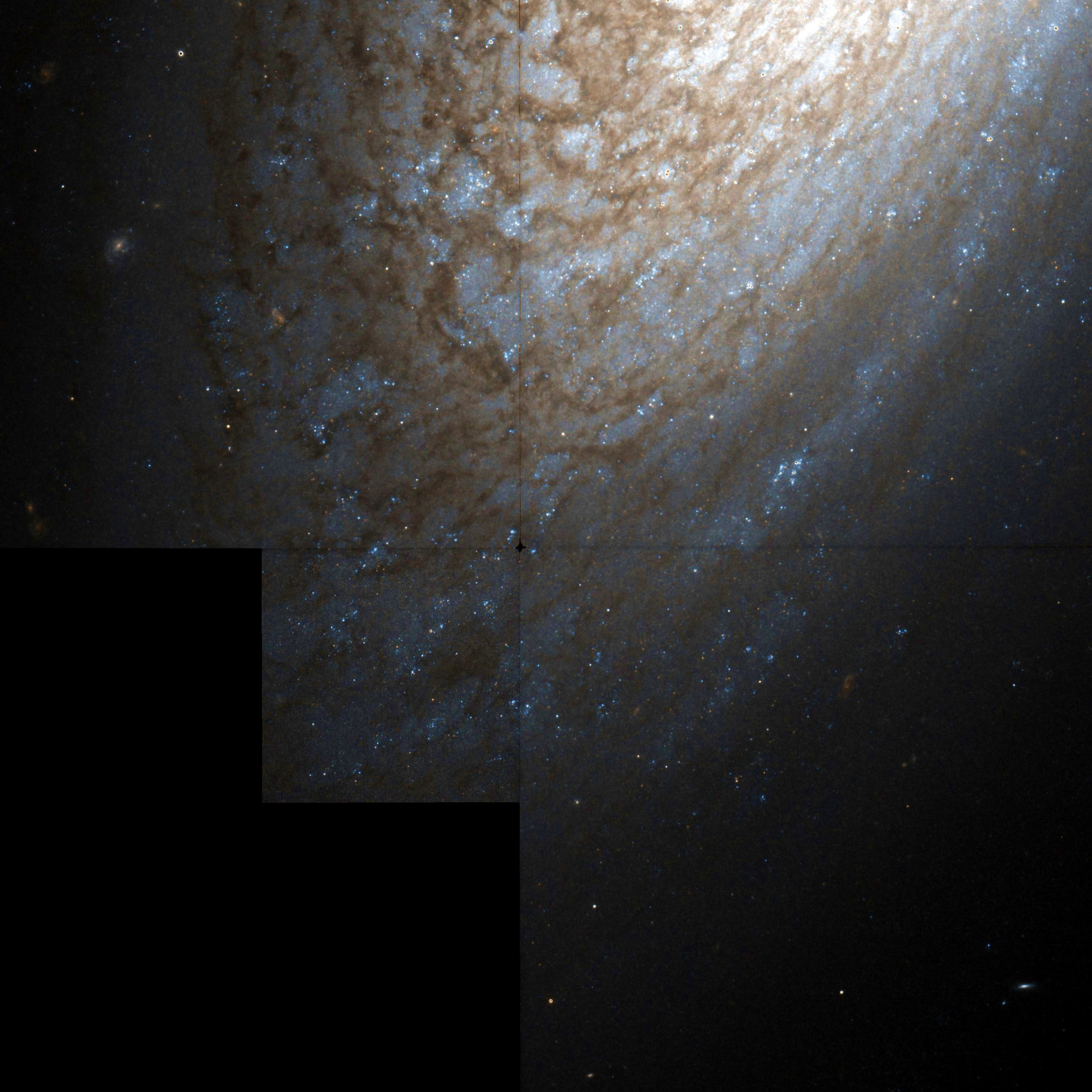 NGC 2841 spiral galaxy by Hubble space telescope